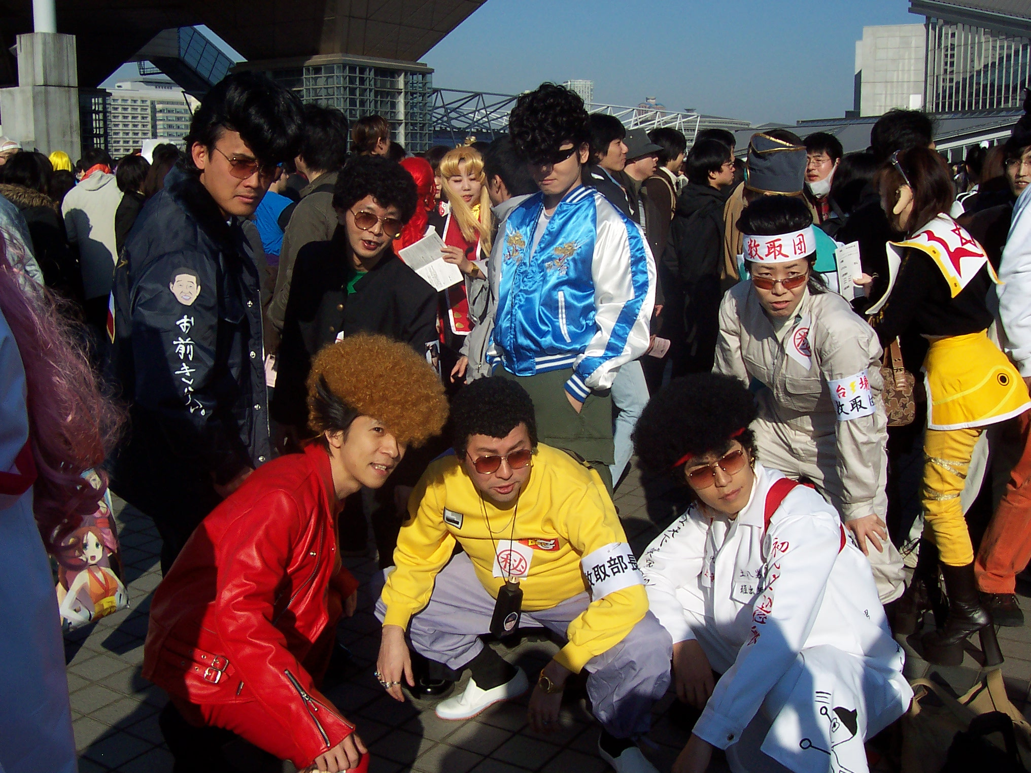 Cosplayers dressed up as bosozoku characters from the show Mecha-Mecha Iketeru!100_1148